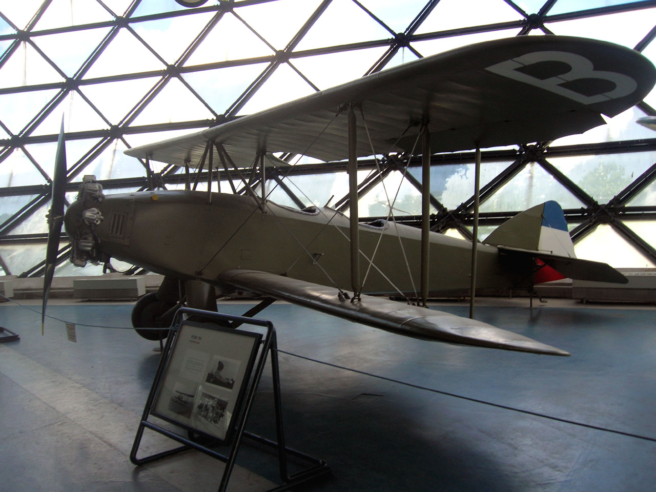 Fizir FN in Belgrade Aviation Museum. Author of the picture is user Marko M.